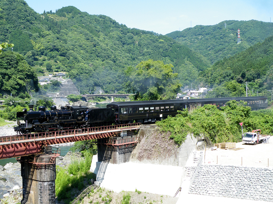 Rapid Express SL Hitoyoshi.